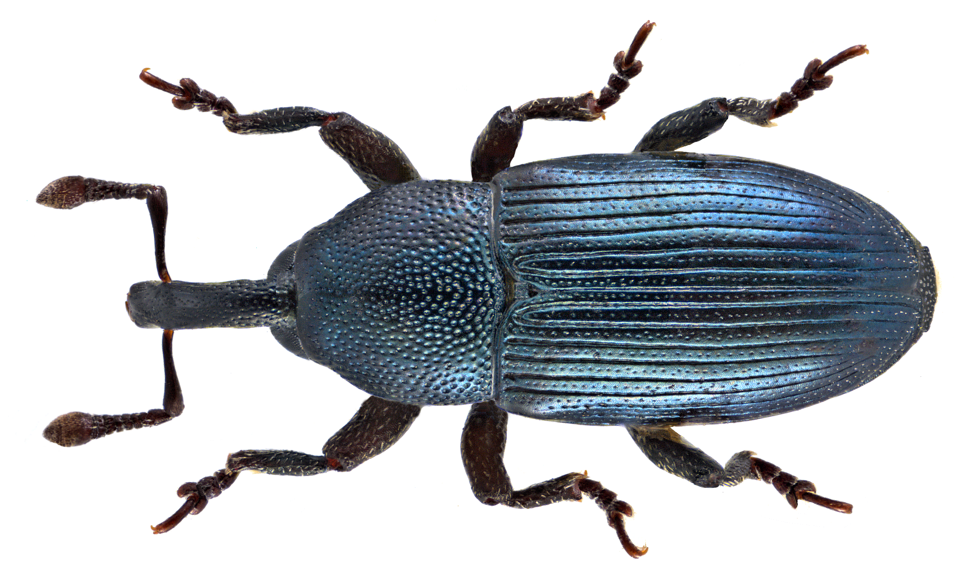 Family: Curculionidae Size: 3,1 mm (3,0-4,2 mm) Origin: Middle East, South- and Central Europe Ecology: lives on Reseda luteola and Reseda lutea Location: Germany, Rheinland-Pfalz, Plaidt, Korretsberg leg. J.Scheuern, 18.VI.1994; det. J.Schoenfeld, 2009 Photo: U.Schmidt, 2014